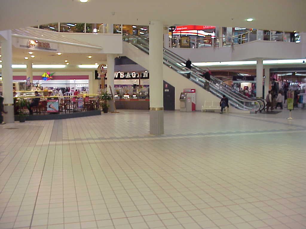 Some of the shops located inside Market Square.